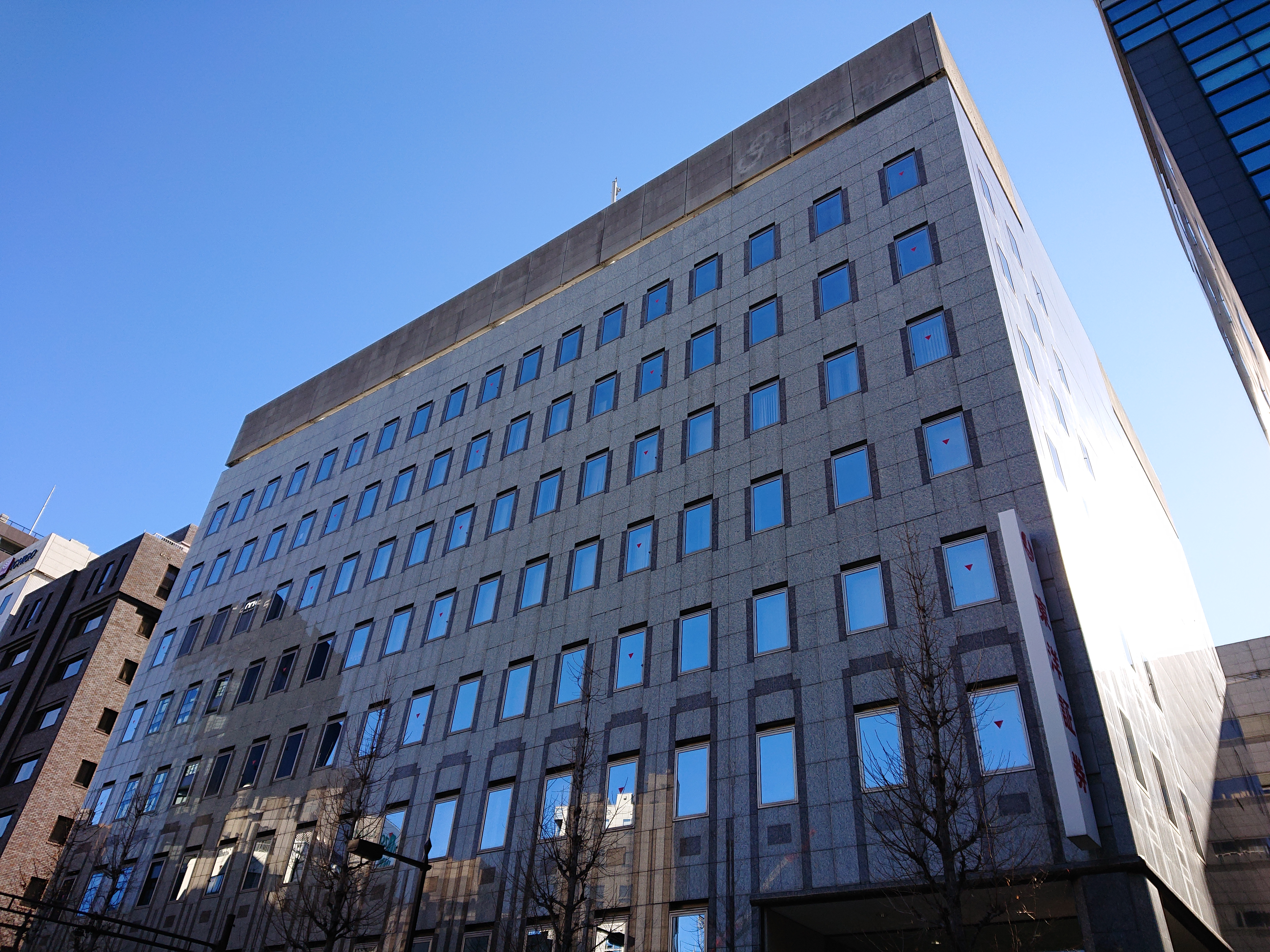 Toyo Securities (東洋証券) headquarters, located at 4-7-1 Hatchobori, Chuo, Tokyo, Japan